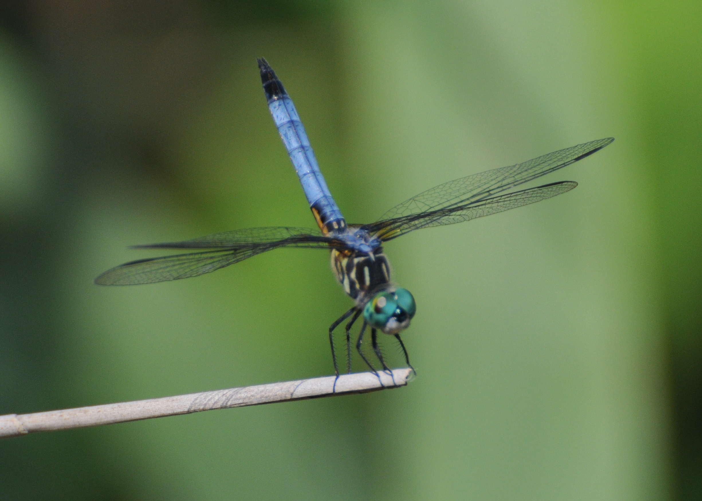 Pachydiplax longipennis An extremely hyper-active dragonfly. They rarely sit in one spot for long. The males are constantly patrolling their territory, dashing out from their perch to challenge other dragonflies or large insects flying nearby.